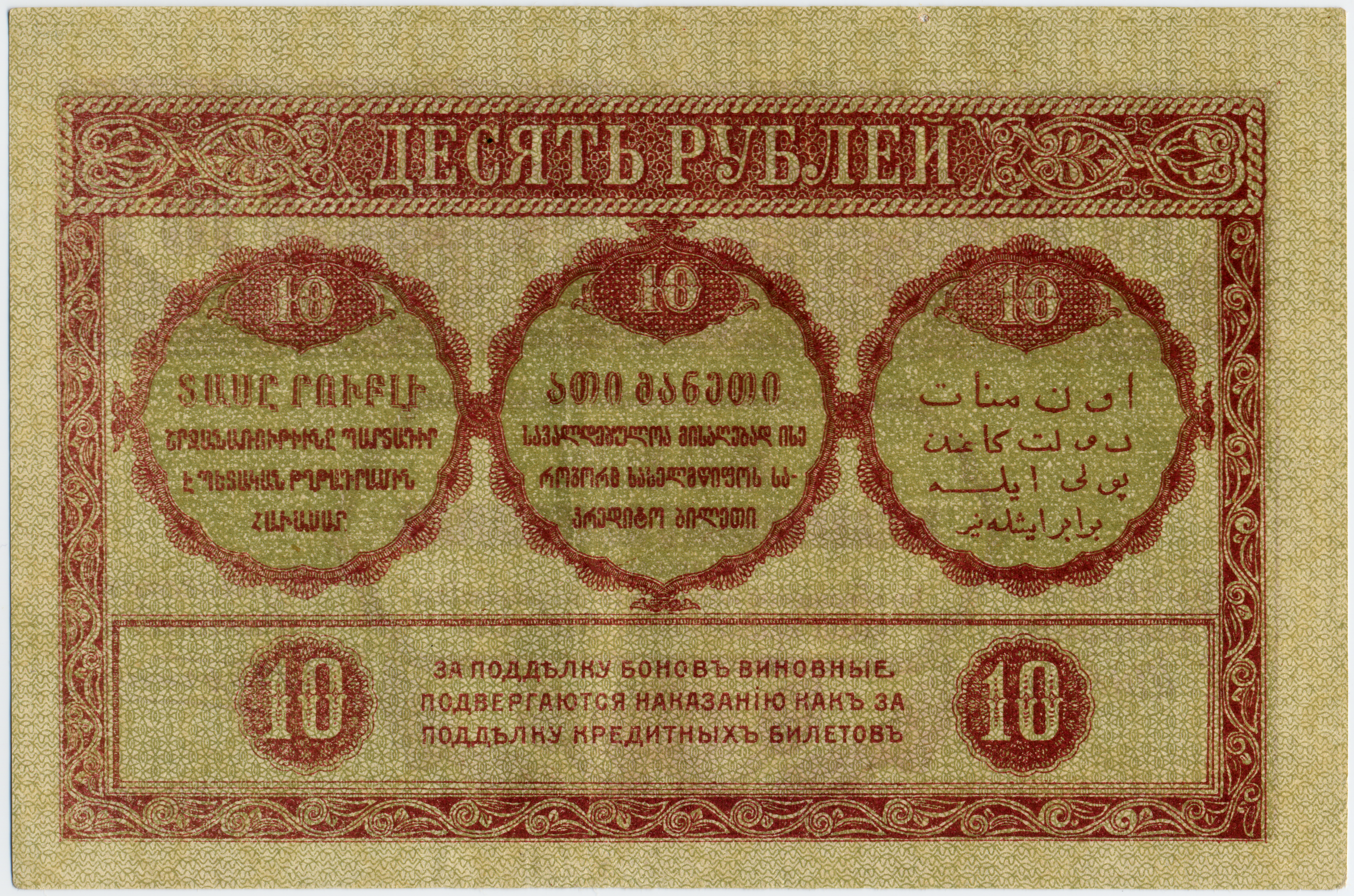 Voucher of Transcaucasian Commissariat, 1918, 10 rubles, reverse.